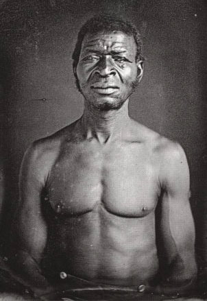 Daguerreotype of Jack, a slave man on a plantation in Columbia, South Carolina. One of a series of photo-portraits of slaves made for Louis Agassiz in 1850 for his study of races.